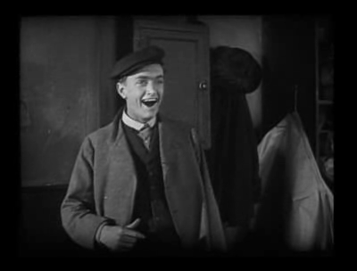 Harold Goodwin in Suds (1920), a film by Jack Dillon with Mary Pickford